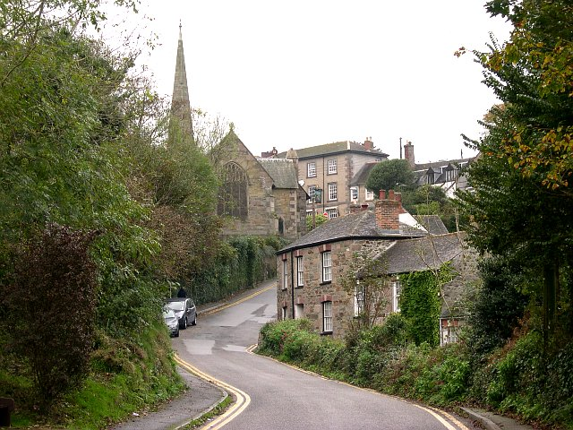 Looking up Town Hill to the Church and St Agnes Hotel. Now often described as "Picturesque", St Agnes is a large village which was a centre of mining activity in the 19th Century, a truly industrial place.